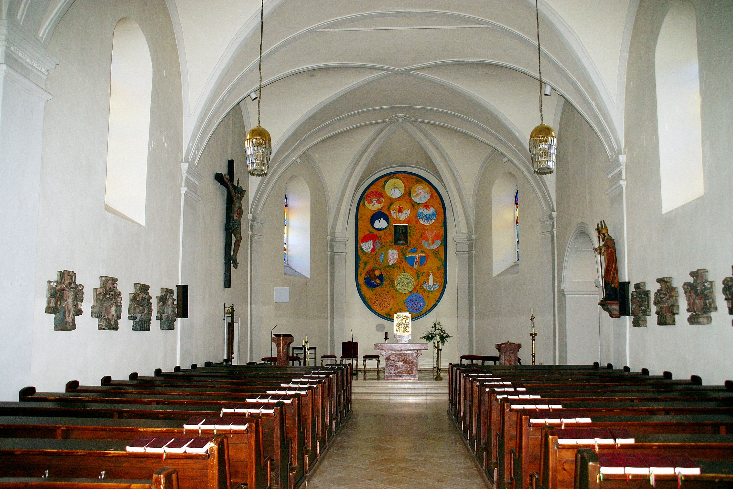 Parish church „Mariae Geburt“ - Neudörfl Object location47° 47′ 41.5″ N, 16° 17′ 56.08″ E